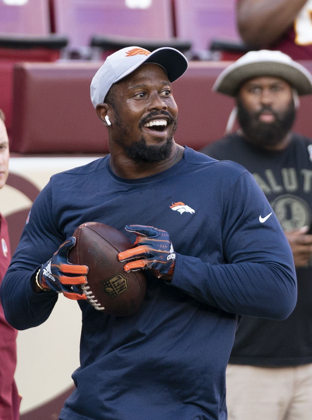 Broncos at Redskins 8/24/18